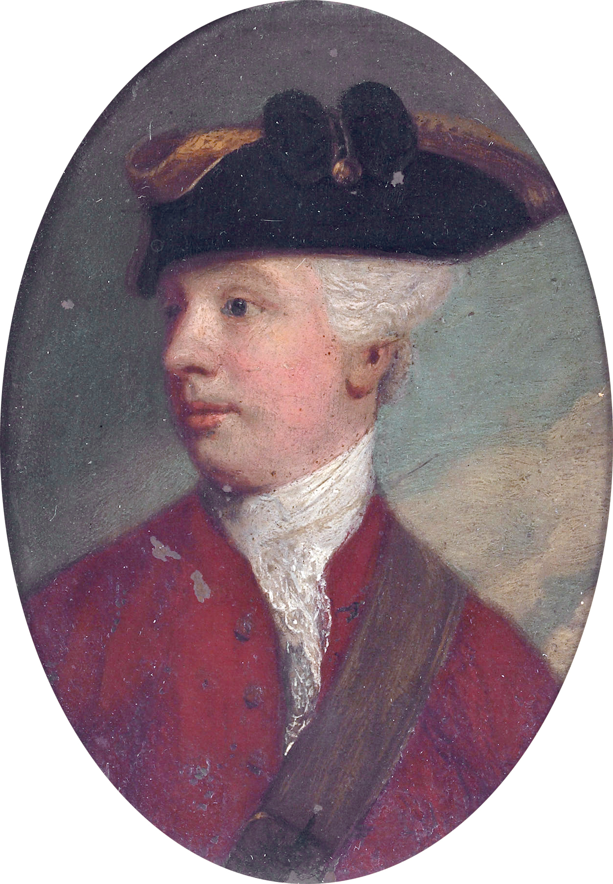 Francis Blake Delaval KB (1727-1771) oil on metal 9.7 cm high 18th century